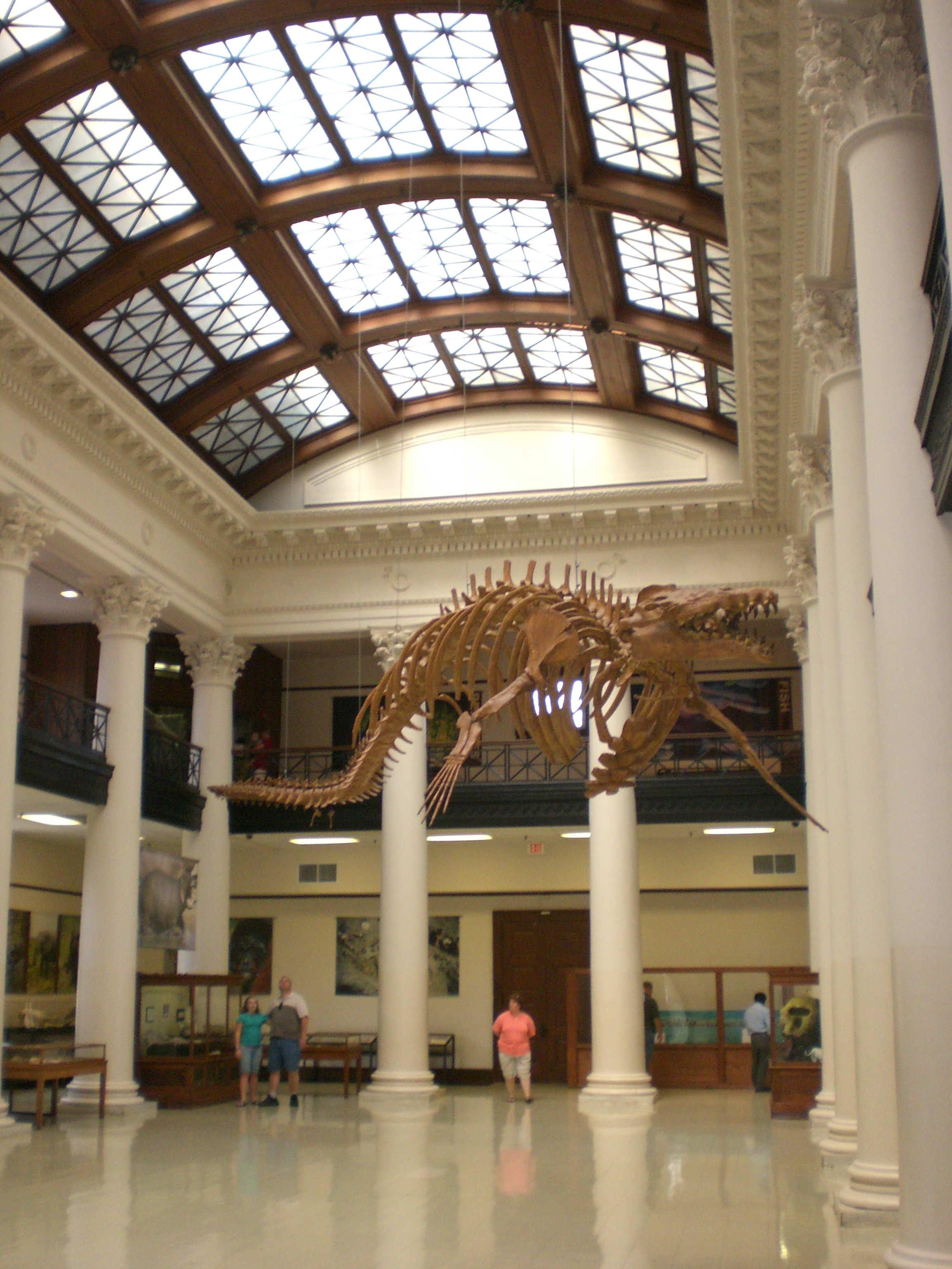 Main atrium of the Alabama Natural History Museum